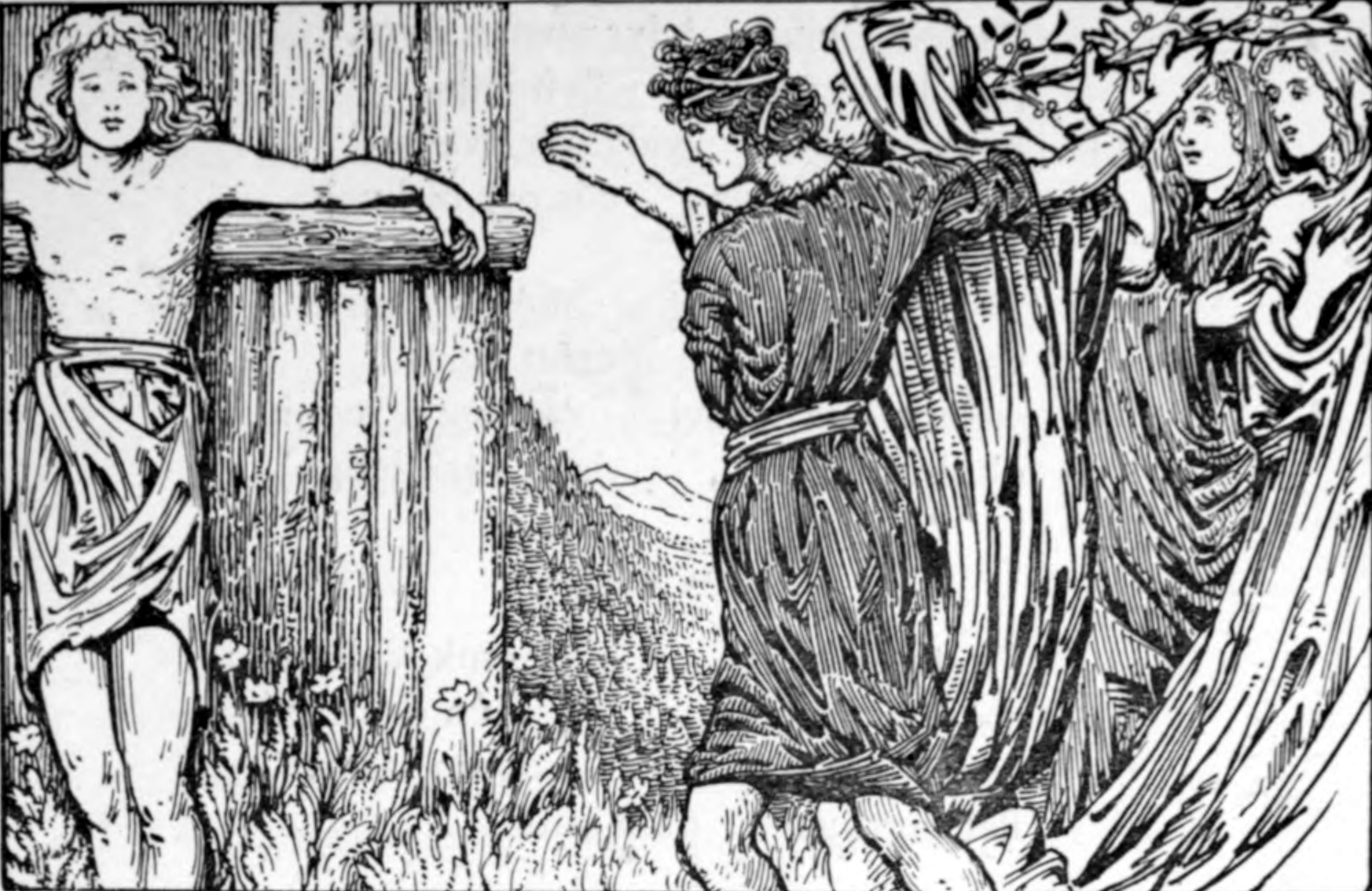 An illustration to Baldrs draumar. The list of illustrations in the front matter of the book gives this one the title The Death of Baldr.